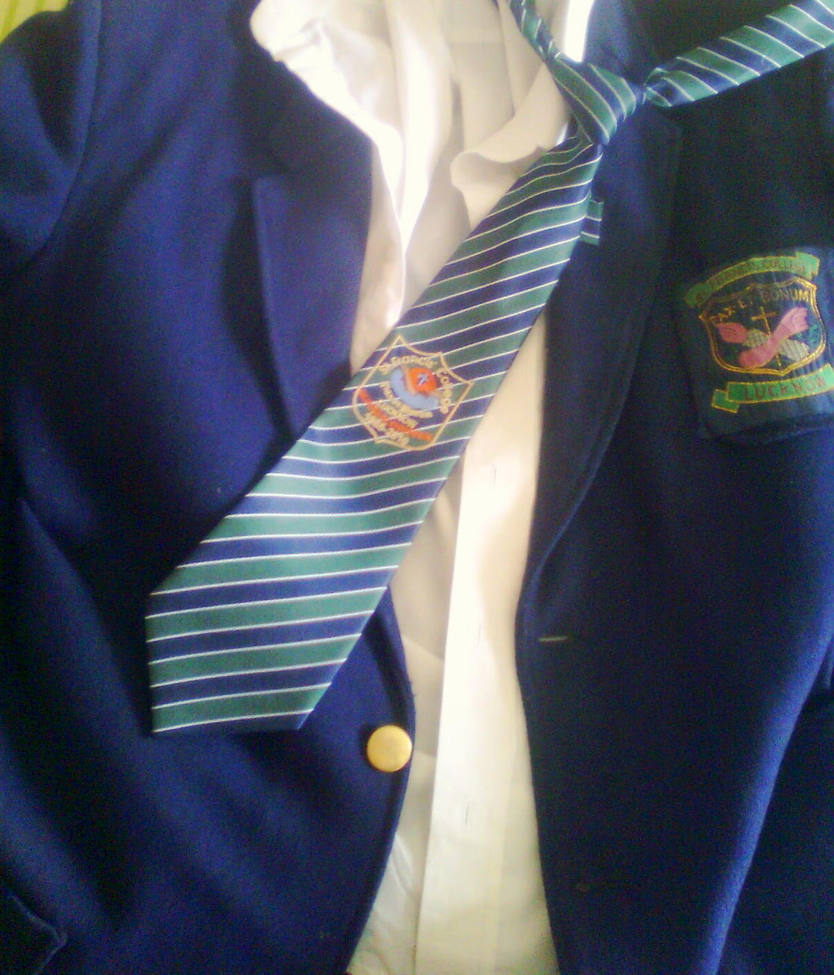 A part of the winter uniform- navy blue blazer,plain white T-shirt & tie with quasquicentennial college crest issued in 2010 in marking 125th anniversary of the college.